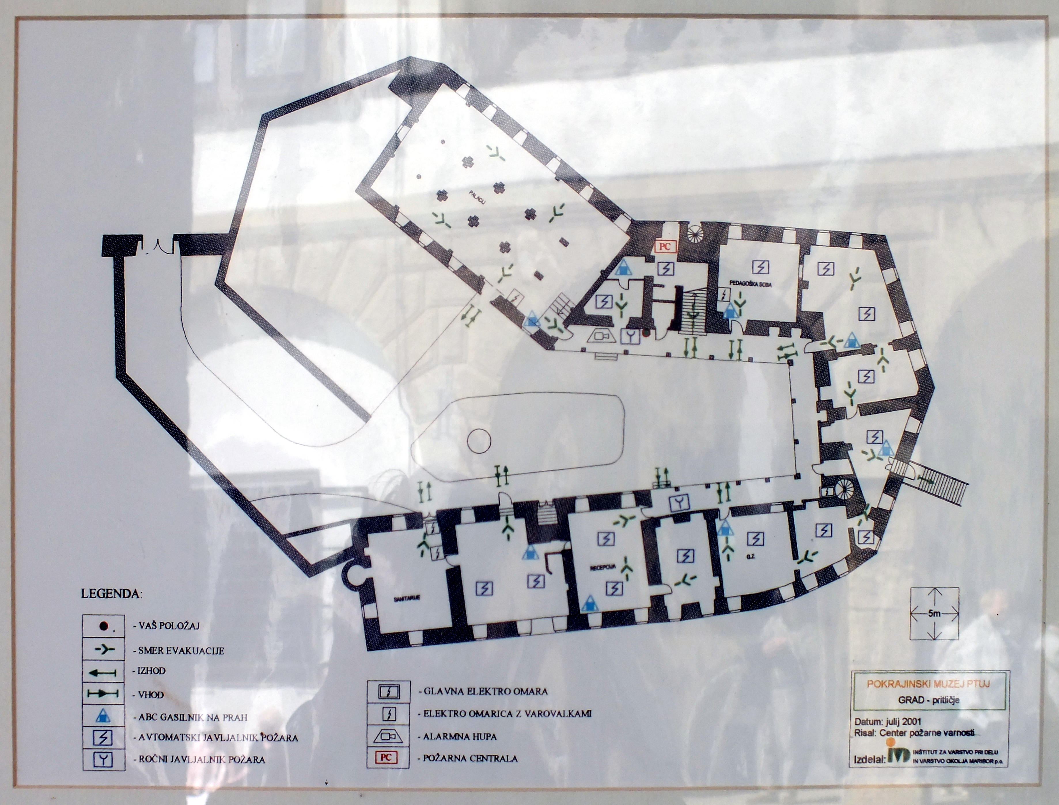 Castle Ptuj in Slovenia